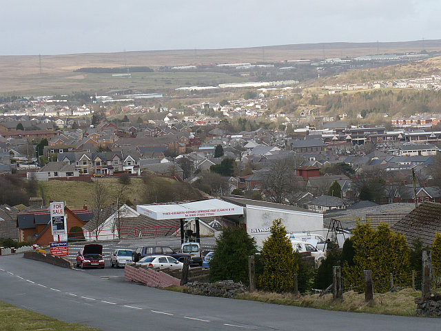 View over Tredegar